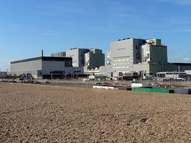 Dungeness Power Station What a strange edifice to find in a Nature Reserve!